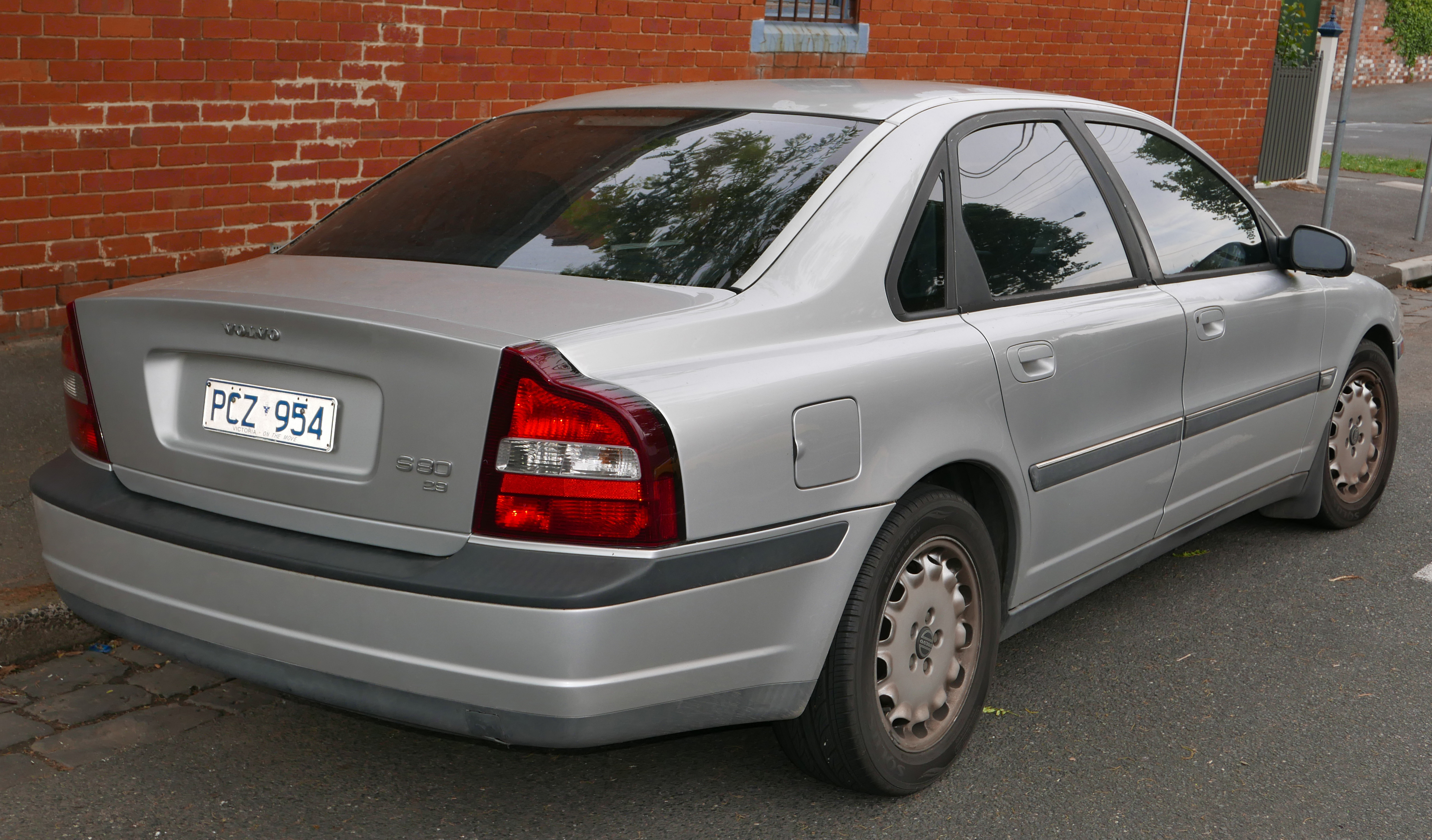 1998 Volvo S80 2.9 sedan. Photographed in Flemington, Victoria, Australia. Vehicle registration enquiry results Jurisdiction Victoria Registration PCZ954 Chassis code YV1TS97C5X1010064 Engine code B630451502251 Compliance date 1998-11 Year of manufacture 1998